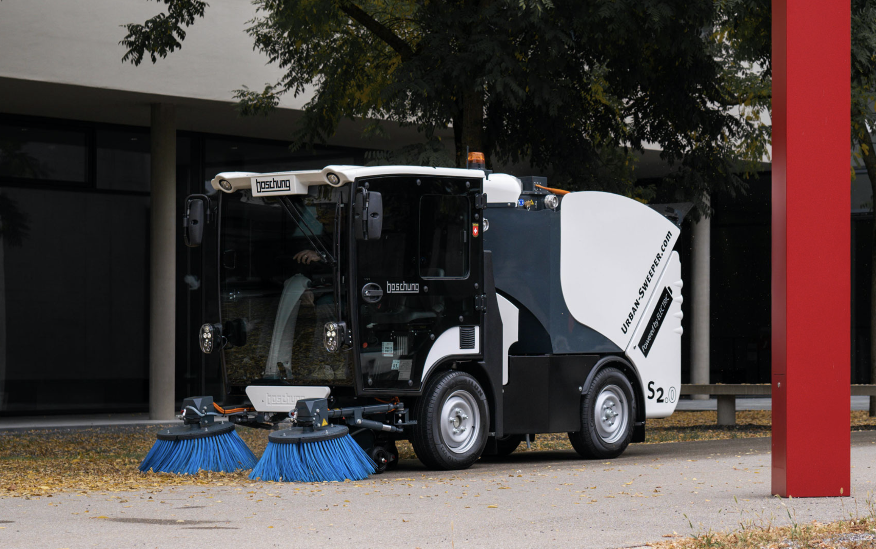 The fully electric Boschung street sweeper that releases 0 (zero) emissions.